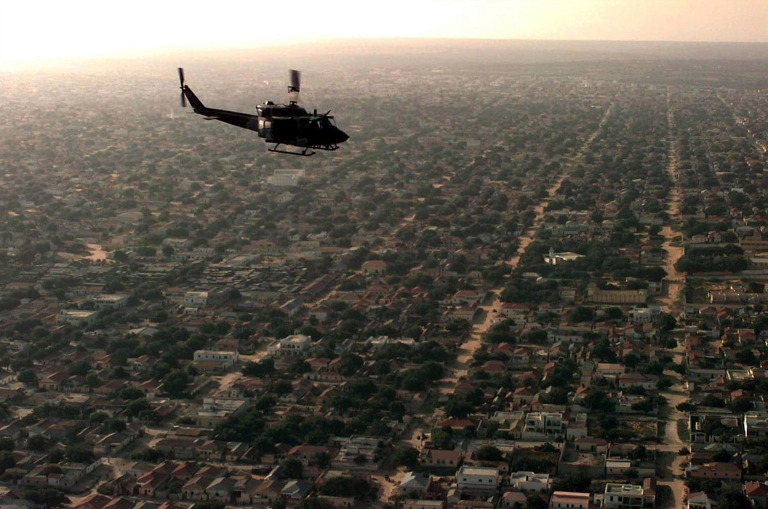 Aerial view, right side profile, of a US Marine helicopter as it flies over a MOGADISHU residential area on a patrol mission to look for signs of hostilities. This mission is in direct support of Operation Restore Hope.